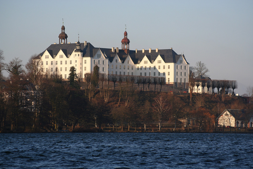 Plön Castle, Schleswig-Holstein, Germany; following the renovation work in 2005